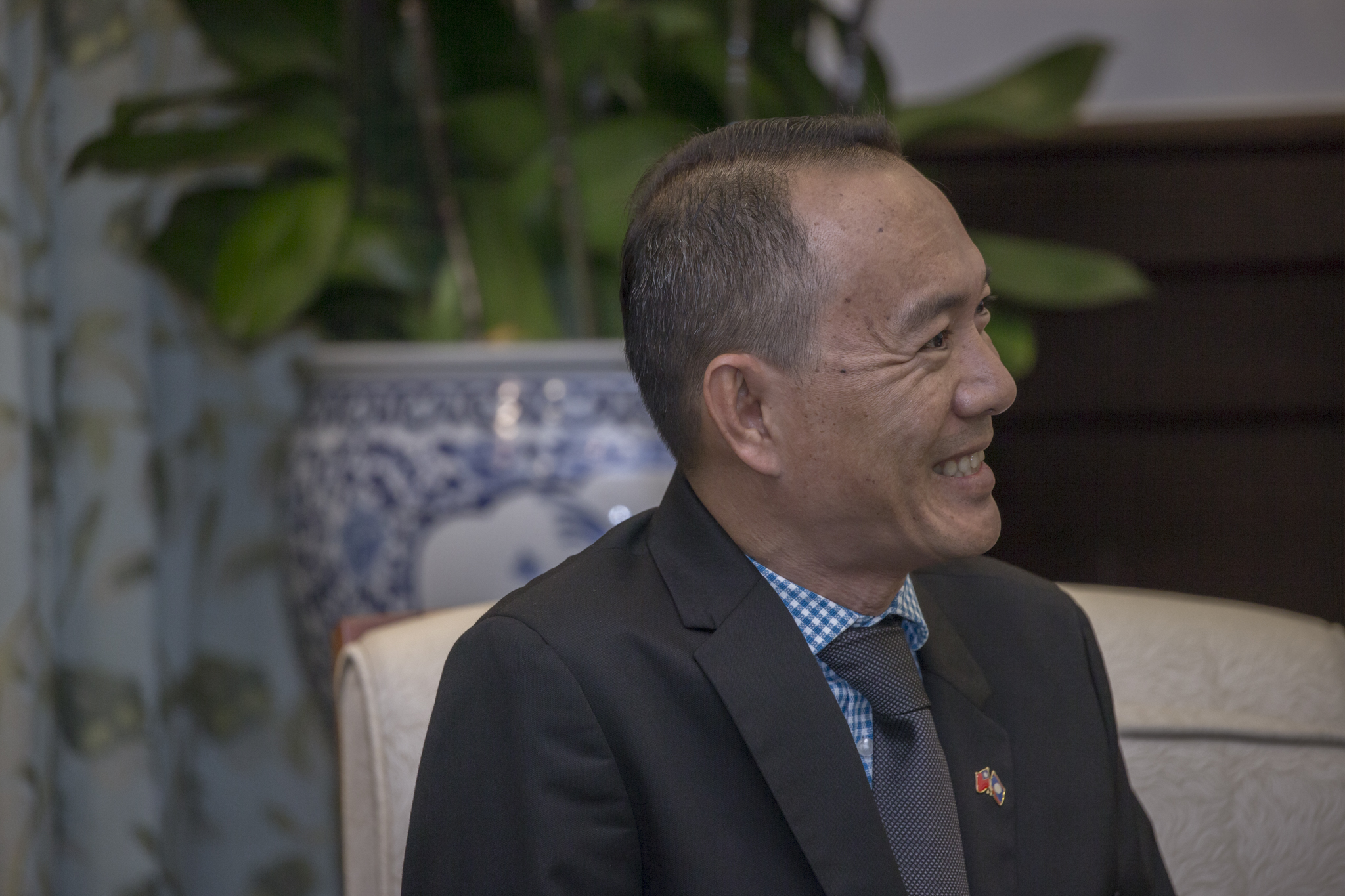 Authorization Method & Scope: Office of the President, Republic of China (Taiwan)│Government Website Open Information Announcement